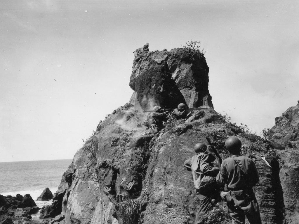 US Army Soldiers from the 147th Infantry engaging heavily fortified Japanese positions